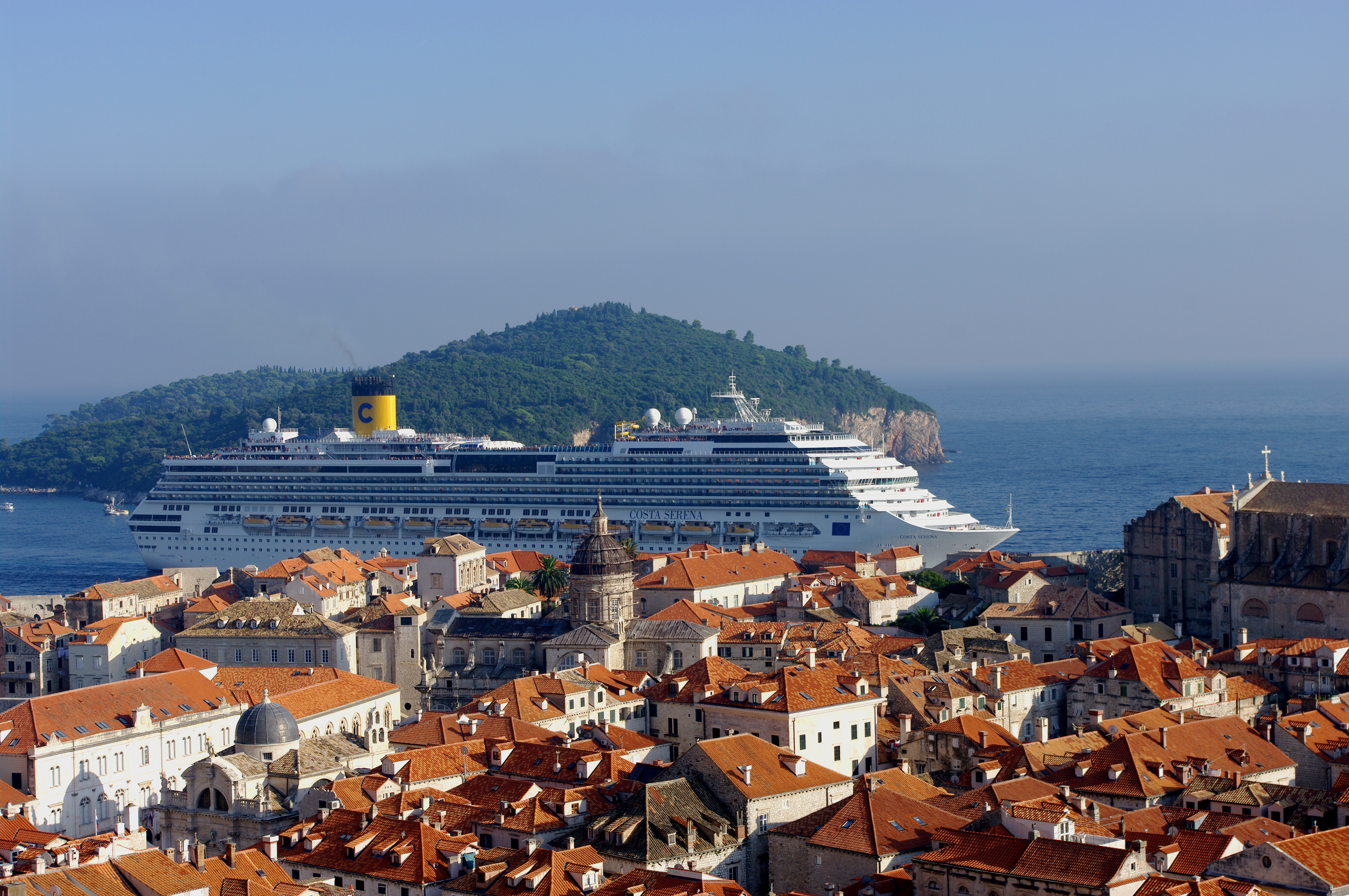 Costa Serena in Dubrovnik